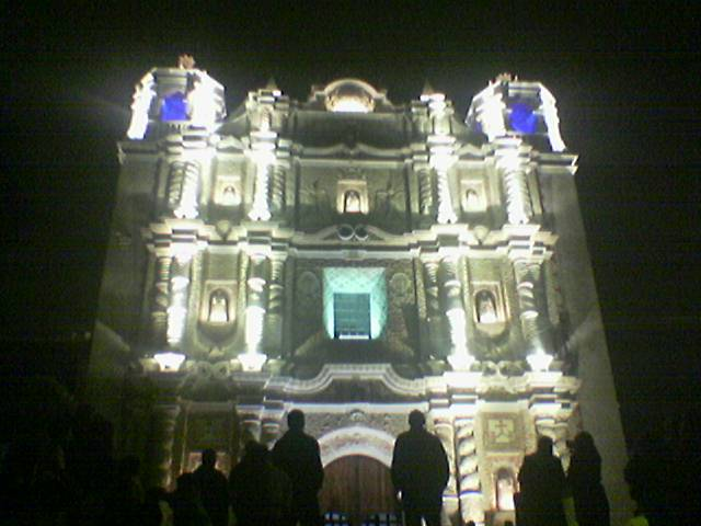 iglesia de santo domingo en la noche